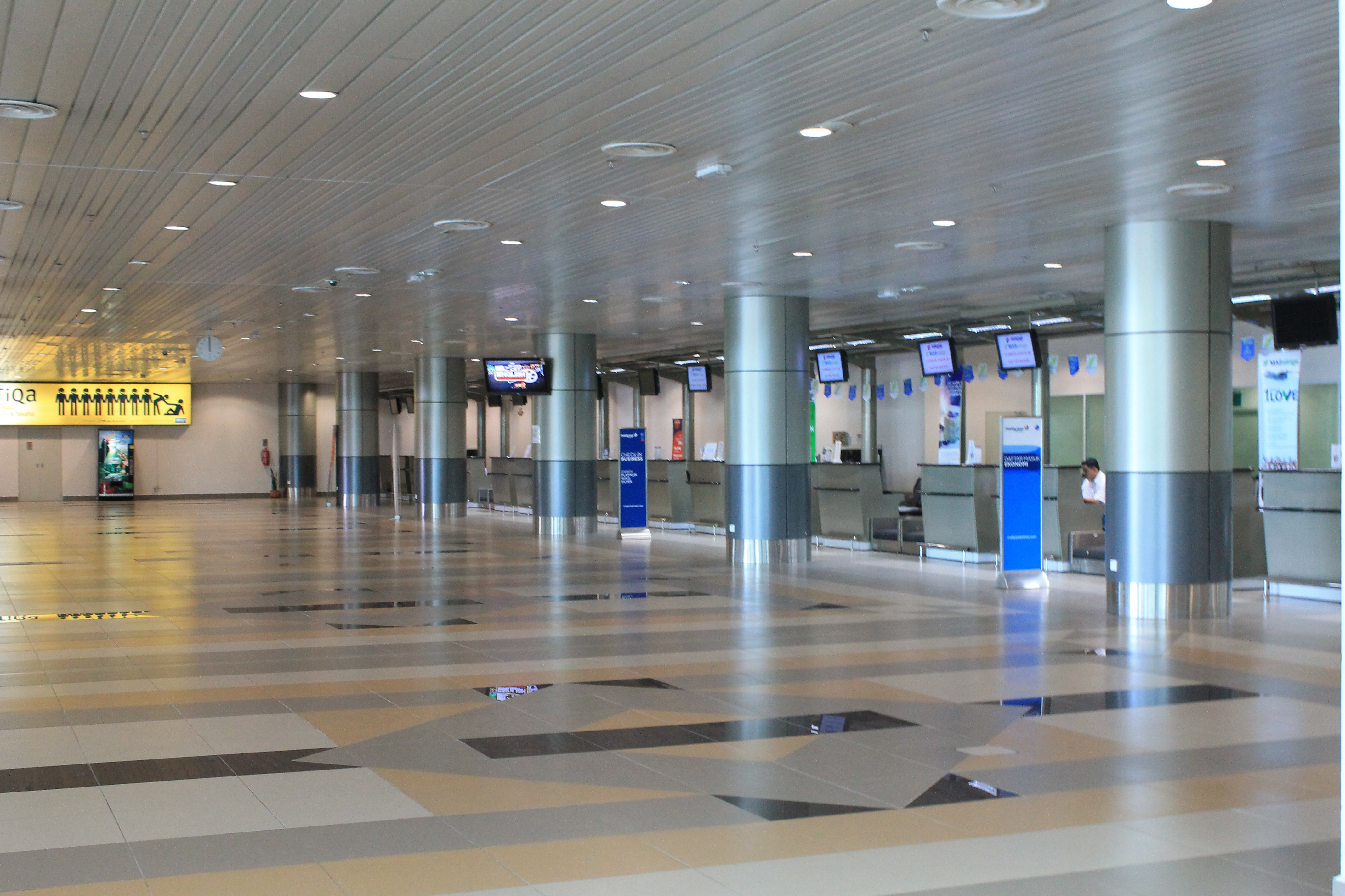 View of check-in counters after upgrade completion of Sibu Airport